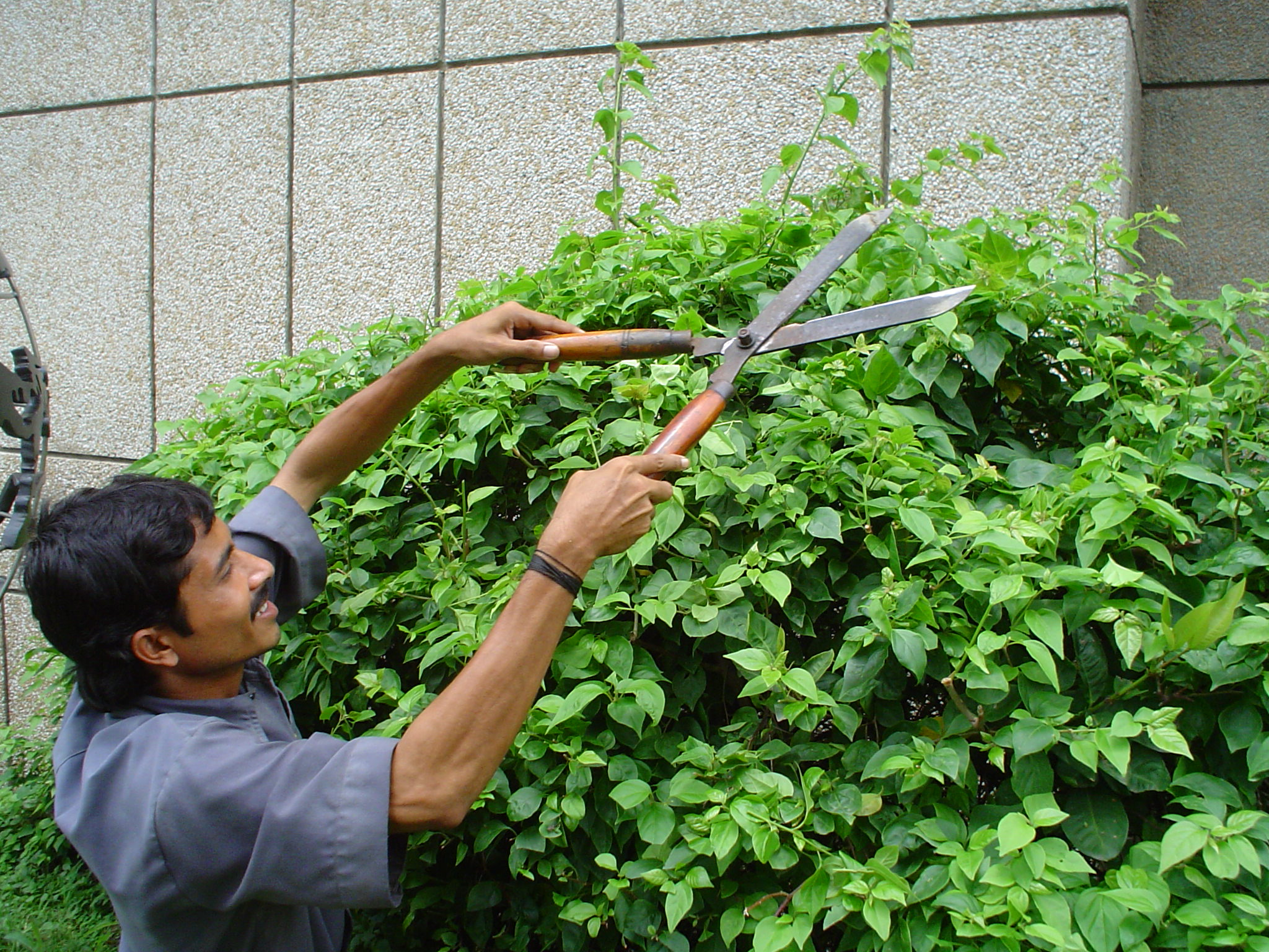 Manual hedge trimming in India.